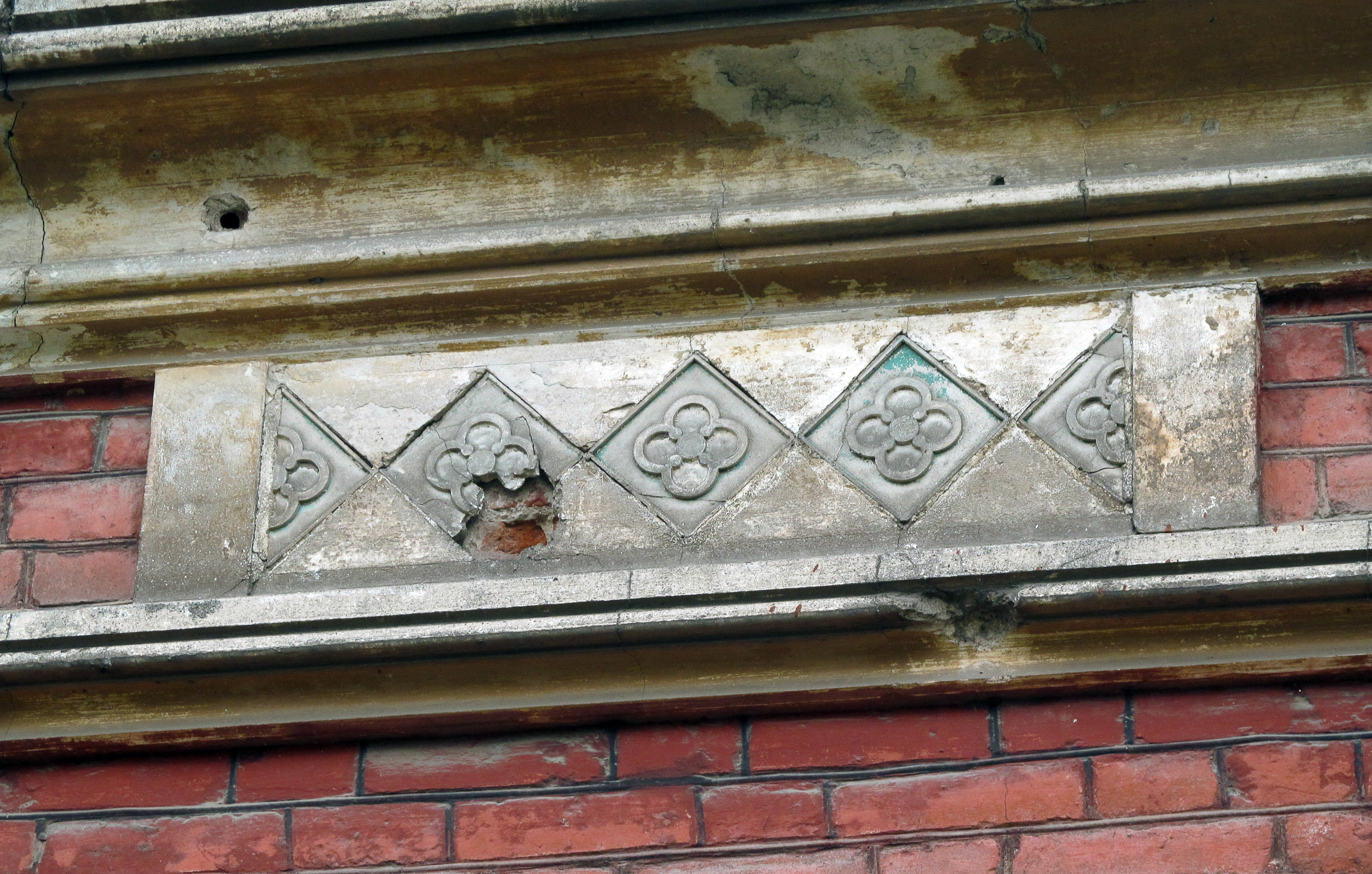 Kotliarevskoho Street, 13, Kharkiv, Ukraine. Vasyl Krychevsky own house. Architectural detail of the facade.